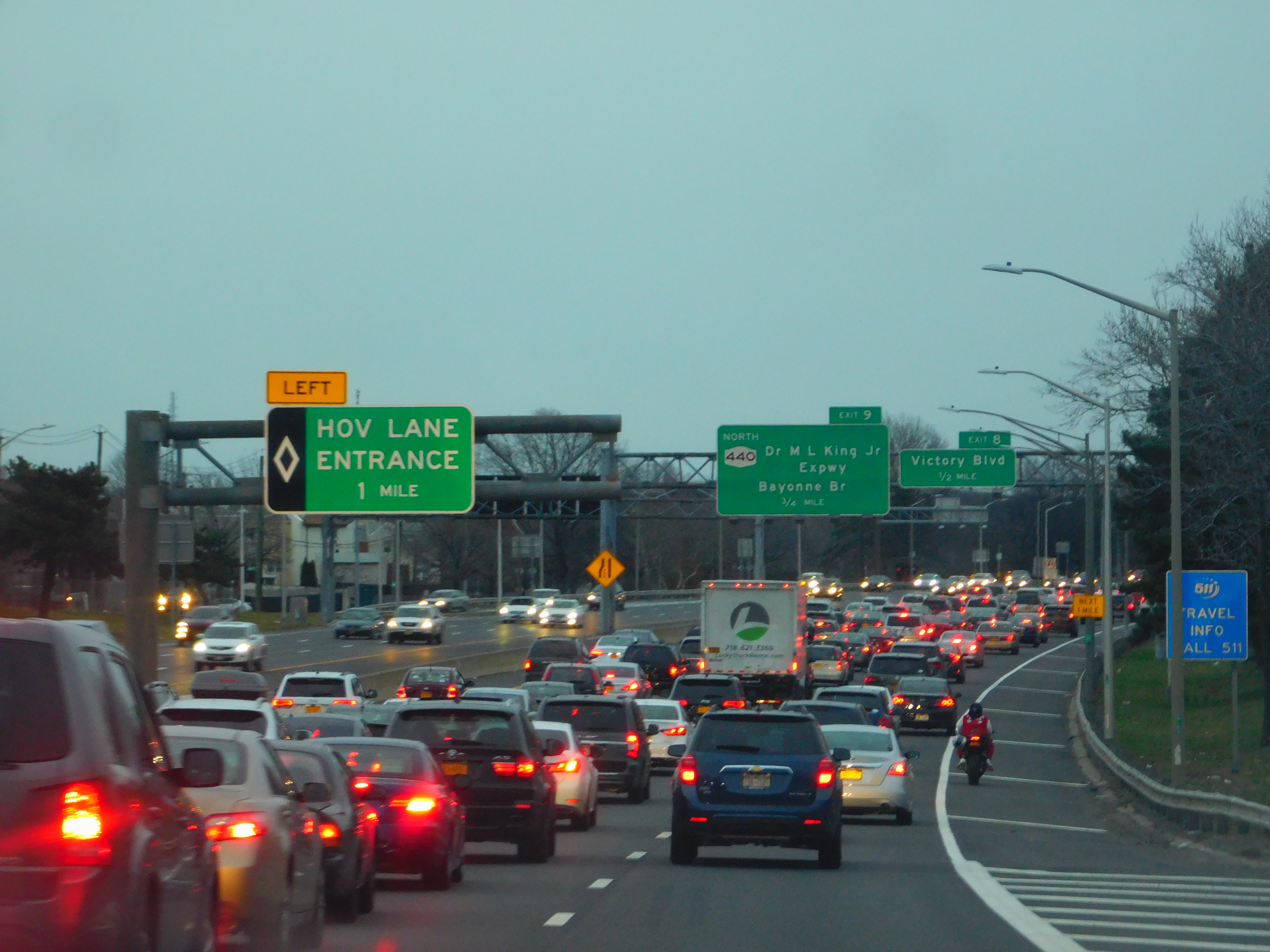 Staten Island